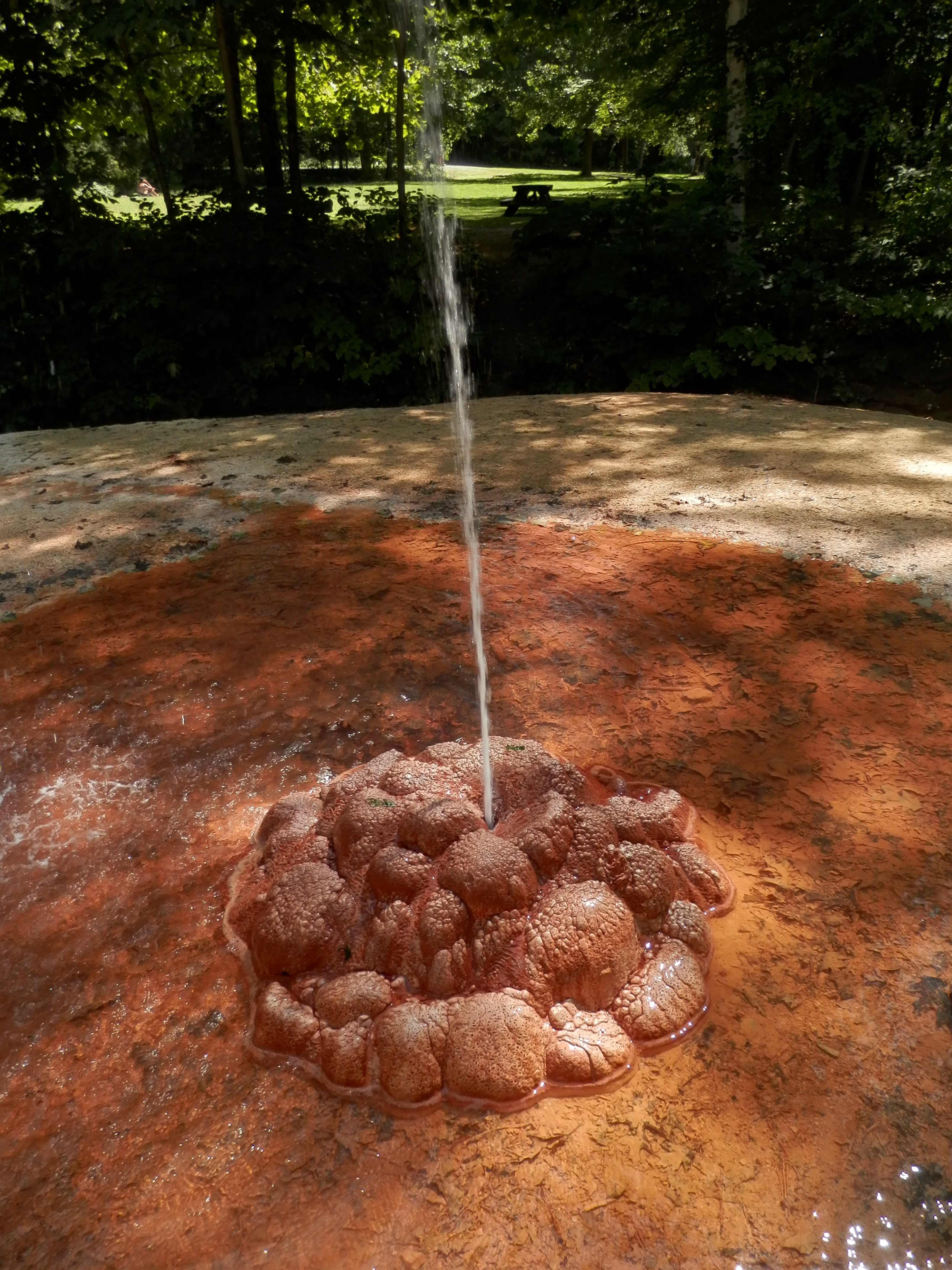 Geyser Island Spouter at Saratoga Spa State Park in Saratoga Springs, New York, United States of America.